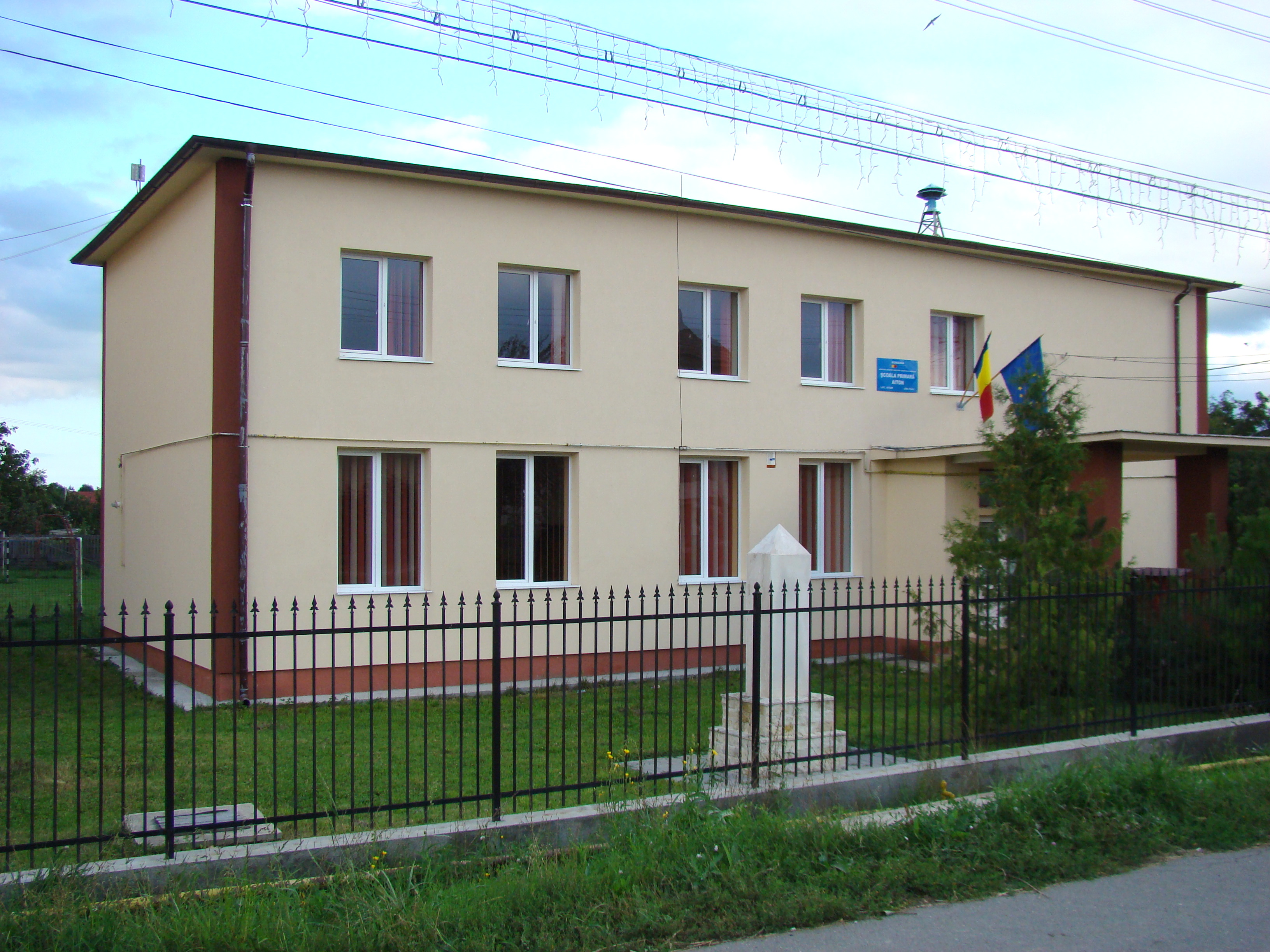 Scoala Primara, Aiton, Cluj county, Romania